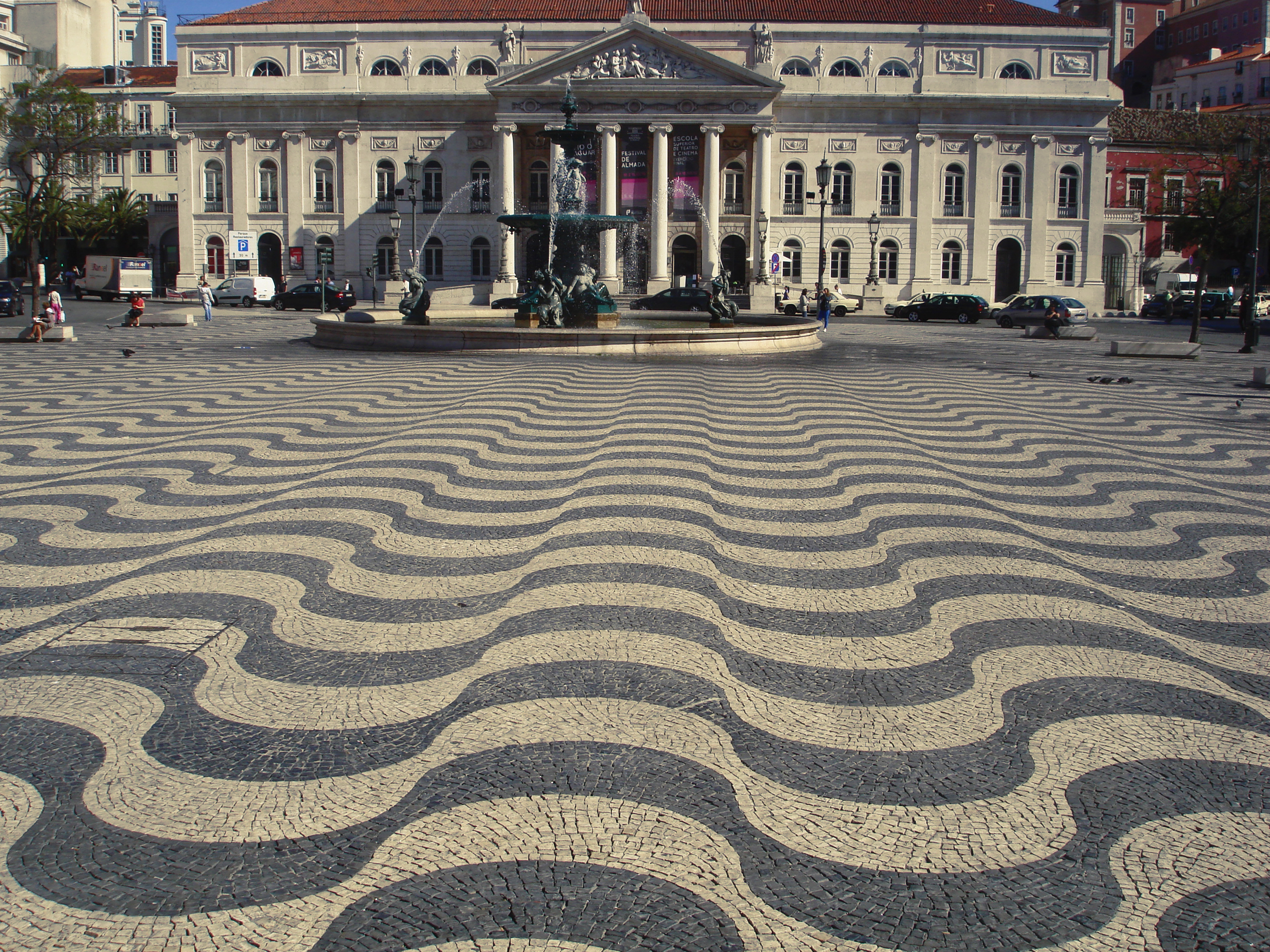 Pavement of Praça de D. Pedro IV in Lisbon (Calçada portuguesa) of black basalt and white limestone